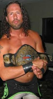 Sean Waltman as the NWA Heritage Champion